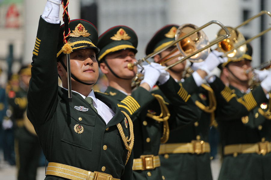 The closing ceremony of the "Trumpet of Peace 2016" International Festival.